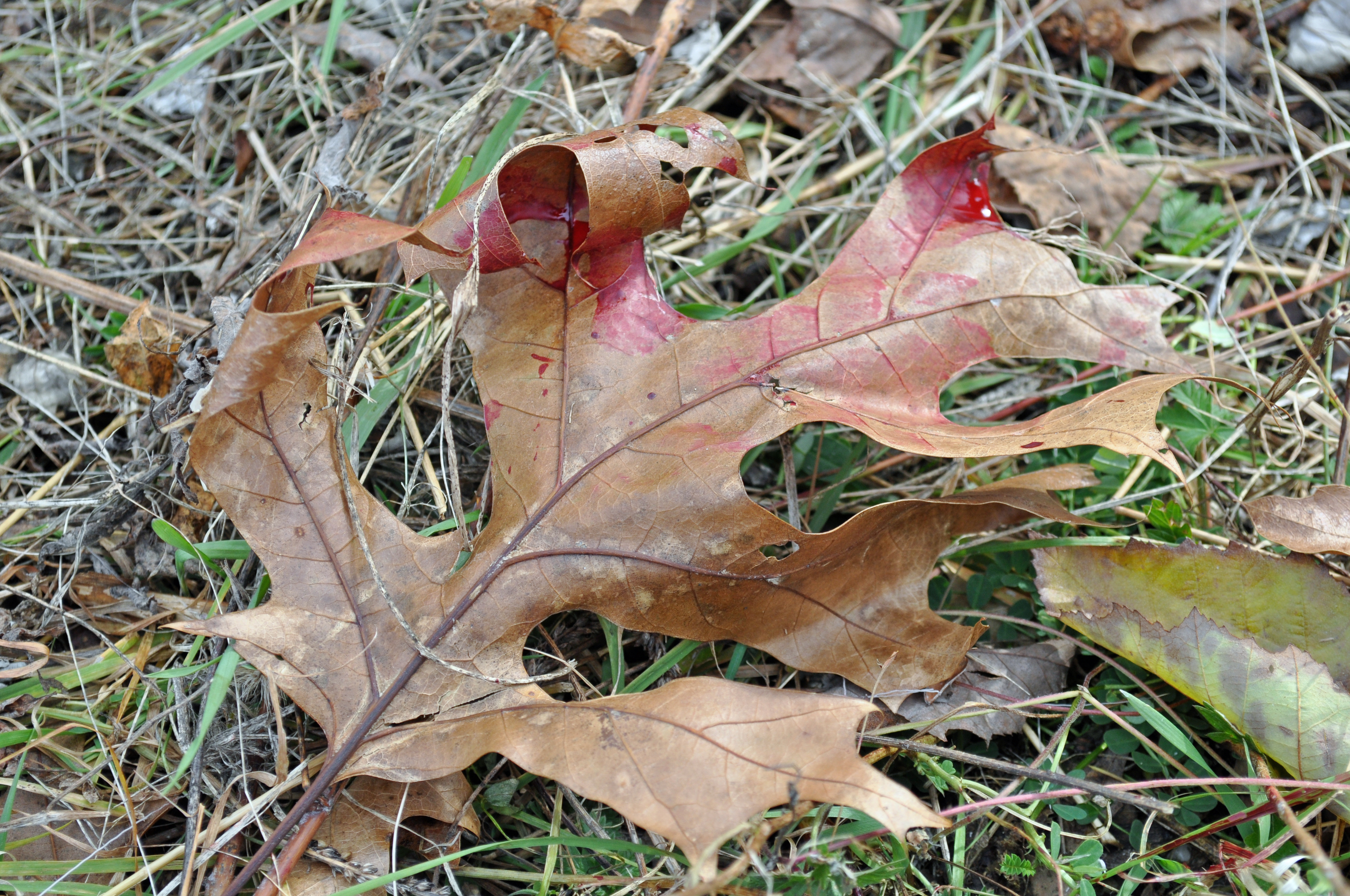 Signs of the hunt. Photo by Tina Shaw/USFWS.